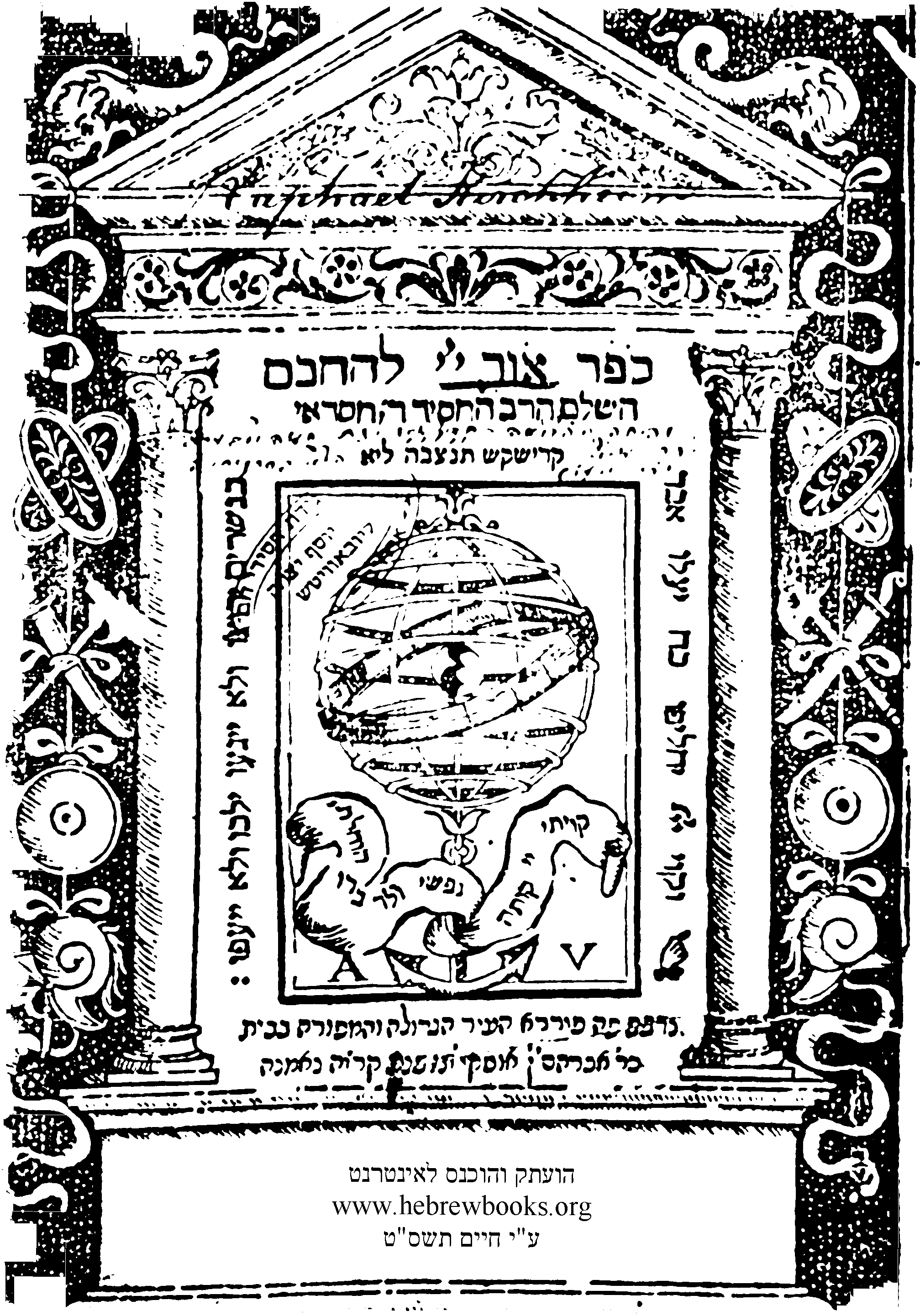 Title page of 1555 edition of «Or Hashem», philosophical work of Rabbi Hasdai Crescas